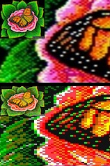 A comparison of the rendering of OpenEmulator against another free Apple II emulator (OSXII)